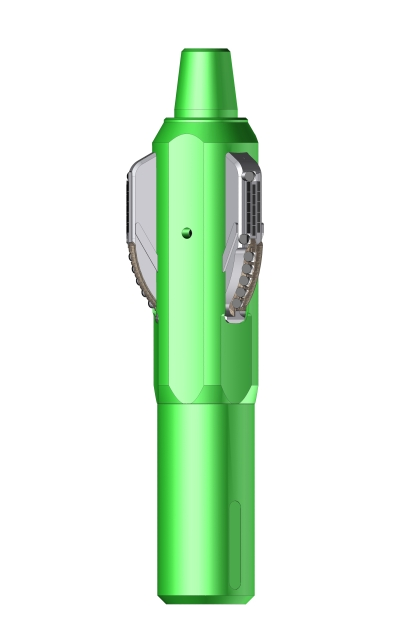 Compact block-type PDC underreamer design (Drillstar Z-Reamer)